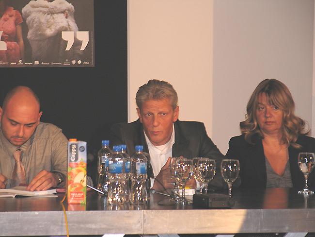 Jan Fabre at the press conference for The World Theater Festival (before the interview